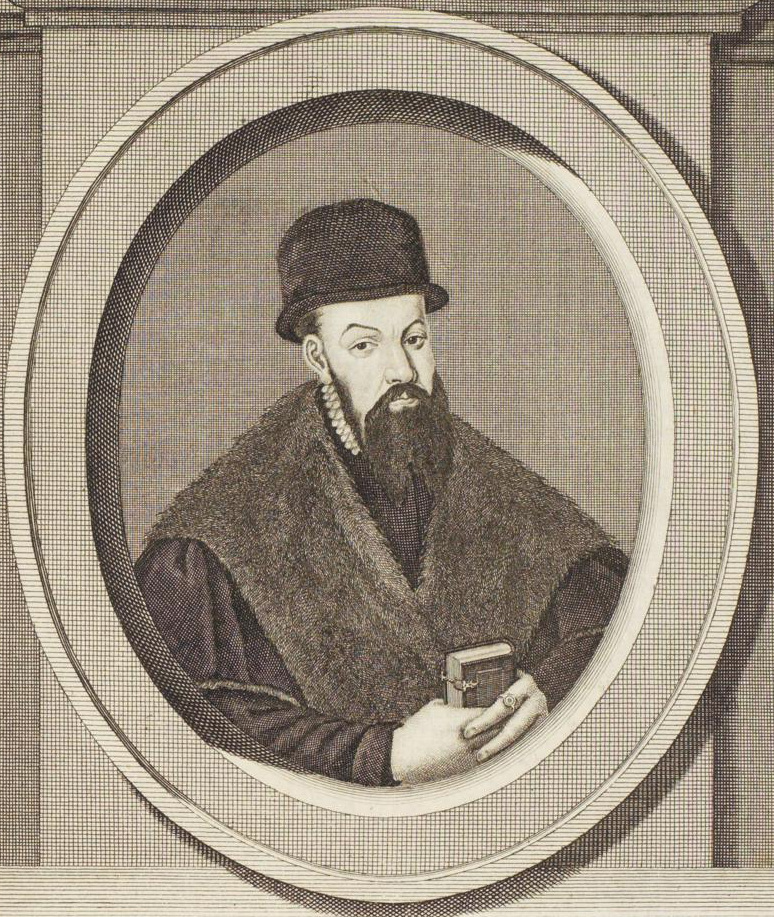 Engraved portrait of Jakob Nikolaus Bording, in: in: Monumenta inedita rerum Germanicarum praecipue Cimbriacarum et Megapolensium : quibus varia antiquitatum, historiarum, legum iuriumque Germaniae, speciatim Holsatiae et Megapoleos vicinarumque regionum argumenta illustrantur, supplentur et stabiliuntur ; cum tabulis aeri incisis / e codicibus ... studuit ... et cum praefatione instruxit Ernestus Joachimus de Westphalen .. Band 3, Lipsiae: Martin 1741